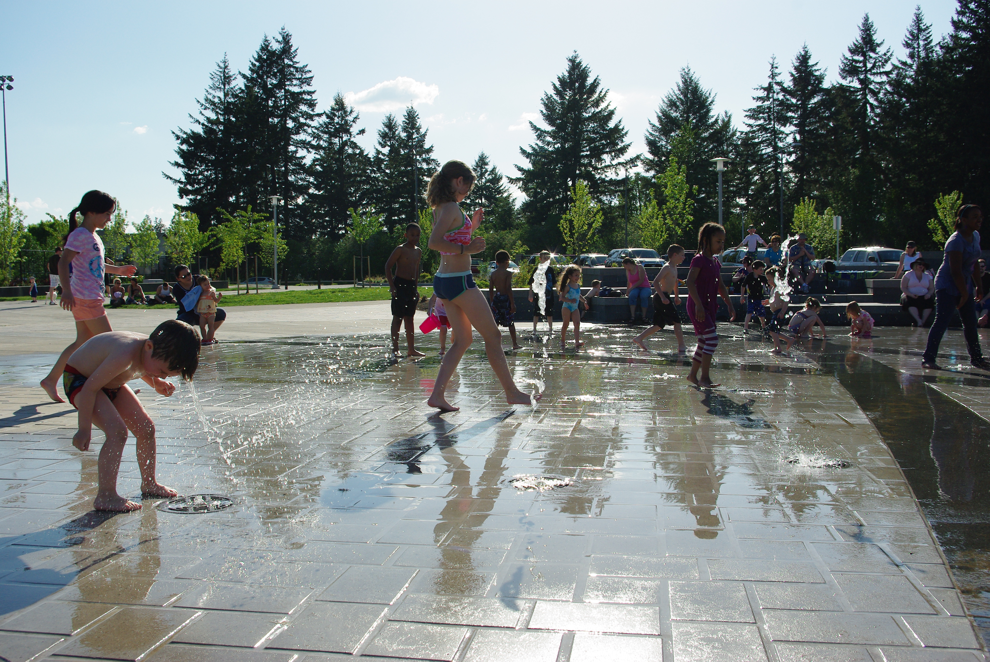 Children playing at w:53rd Avenue Park in Hillsboro, Oregon.